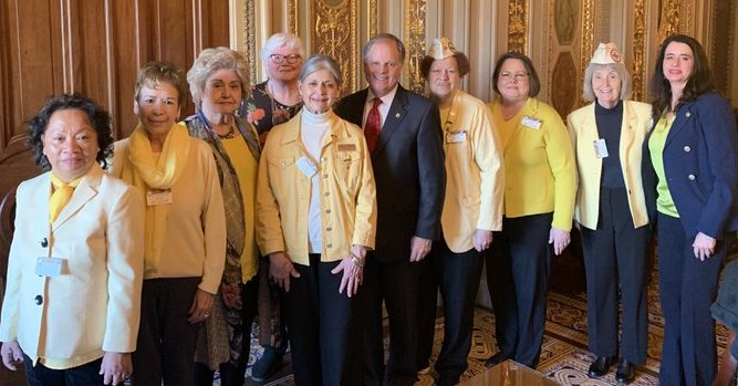 Thank you to the Gold Star Wives who attended my speech on the Senate Floor today! You've given so much to our country, and I will continue to advocate for you to receive the benefits that you paid for and deserve. Let's finally end the #WidowsTax! -- Doug